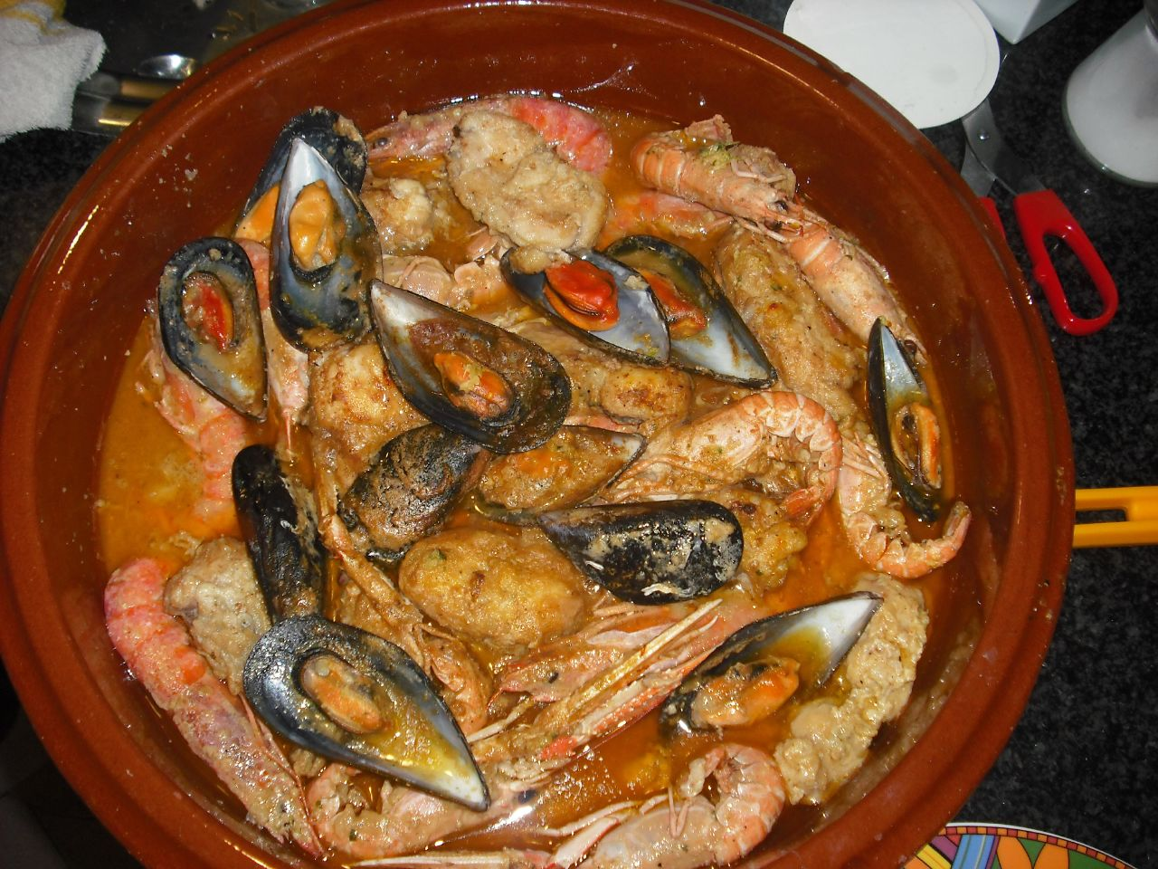 "Sarsuela", fish dish from traditional Catalan cuisine